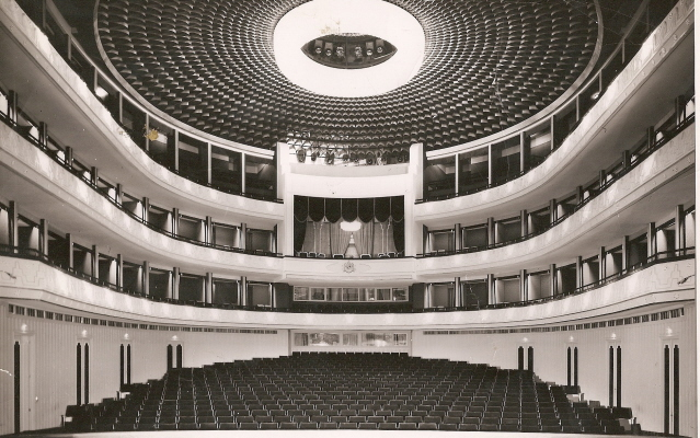 Talar-e Rudaki, Concert Hall, Tehran, Iran